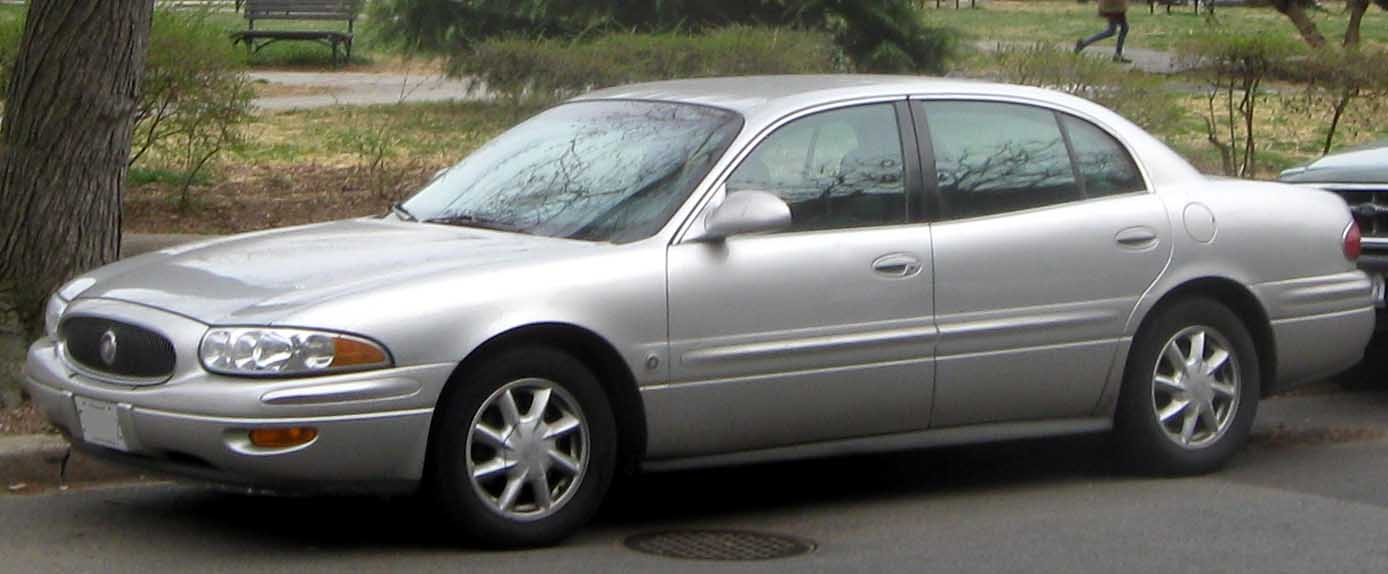 2000-2005 Buick LeSabre photographed in Washington, D.C., USA.